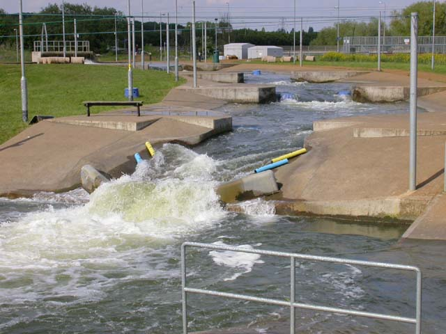 White Water Rafting Installation. At the 8th Earl Spencer Centre for Young People on the Bedford Road. The pump supplying water for the course is top left of the image.